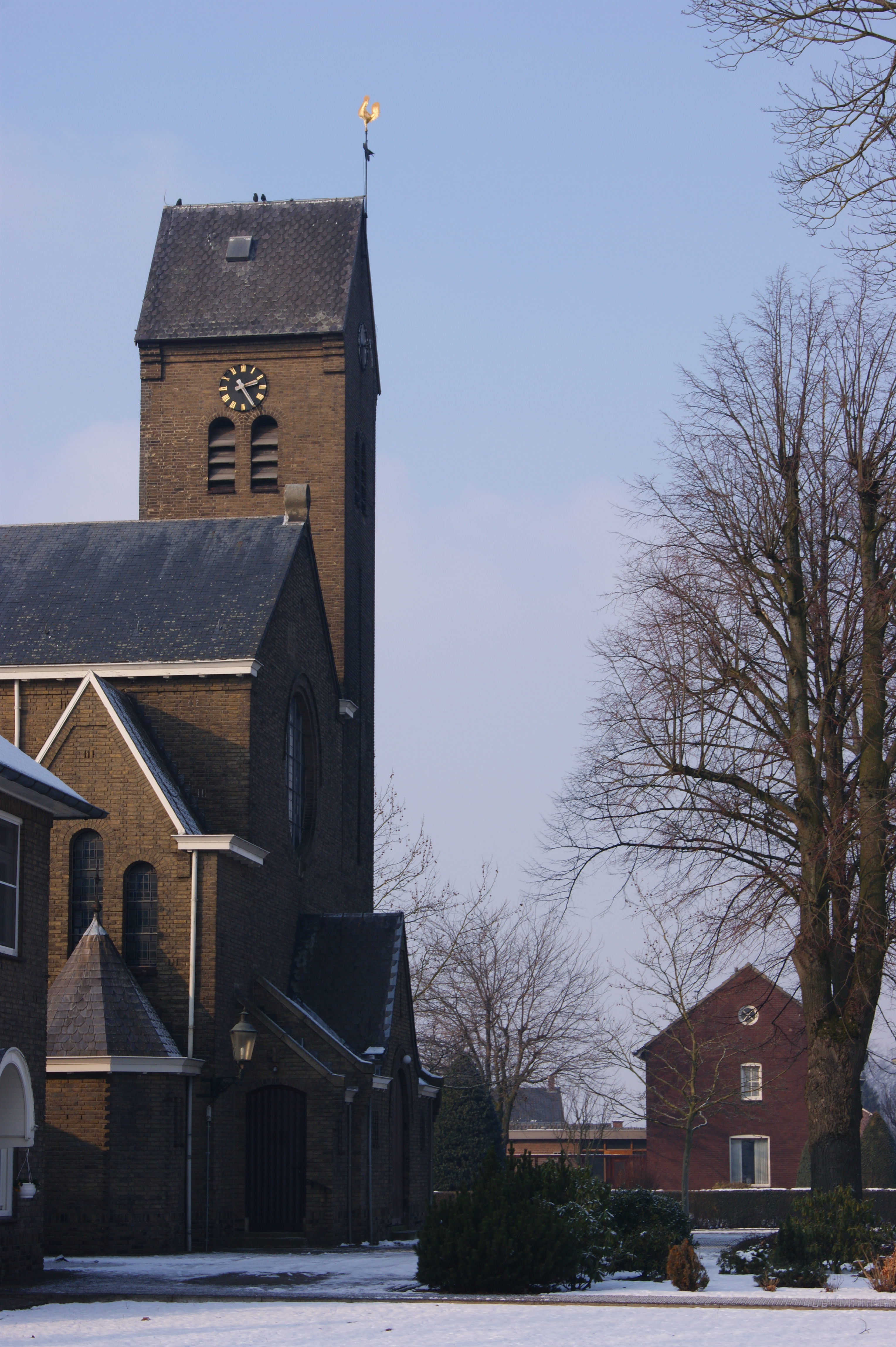 St.Liduinachurch